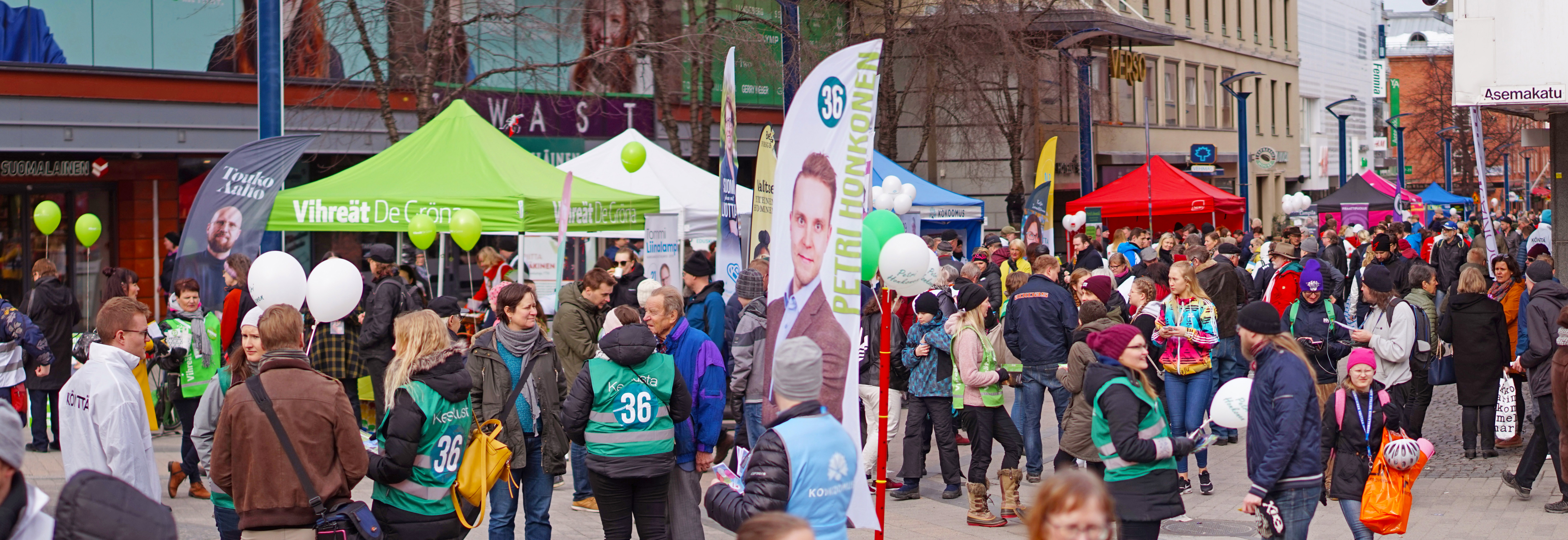 A day before the Parliamentary elections of Finland in 2019. Kauppakatu, Jyväskylä.